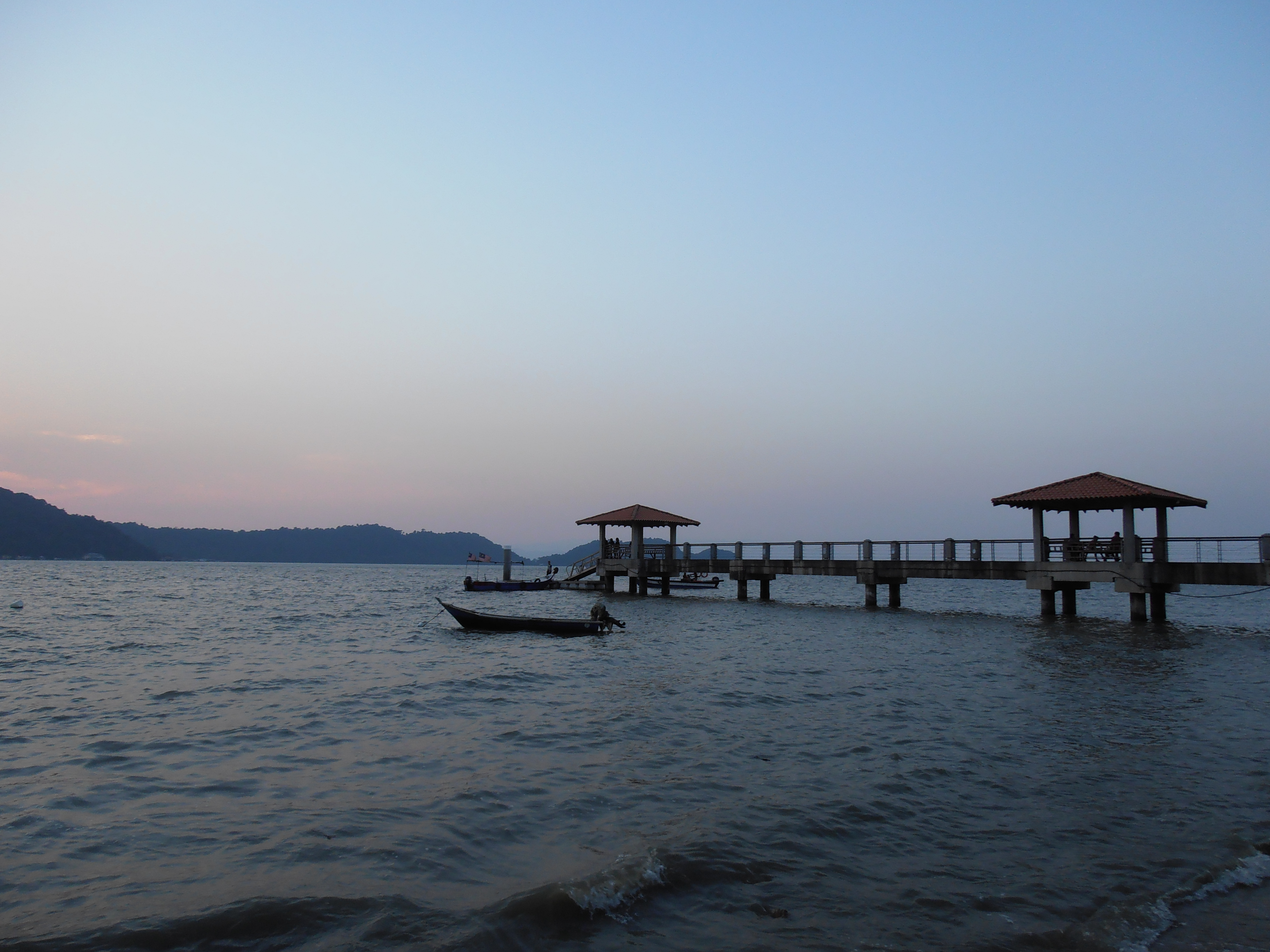 Batu Musang Jetty is a spot for visitors to board a ferry to Aman Island from Batu Kawan.